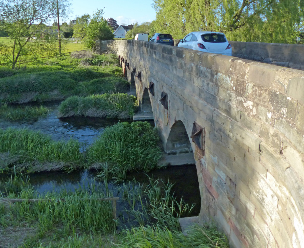 A428 Bretford Bridge crossing the River Avon